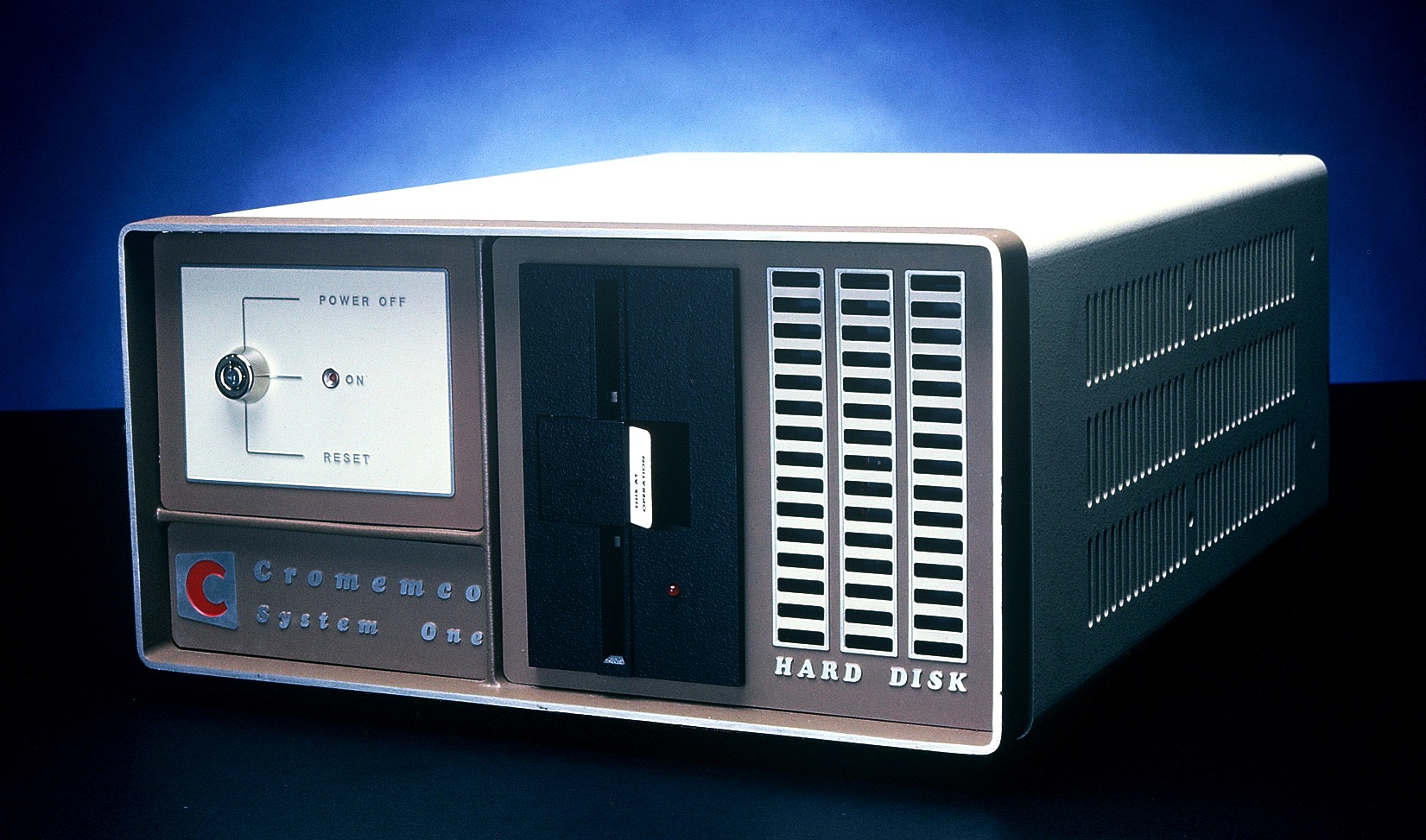 Cromemco System One. The Cromemco System One appeared in the 1984 movie Ghostbusters.